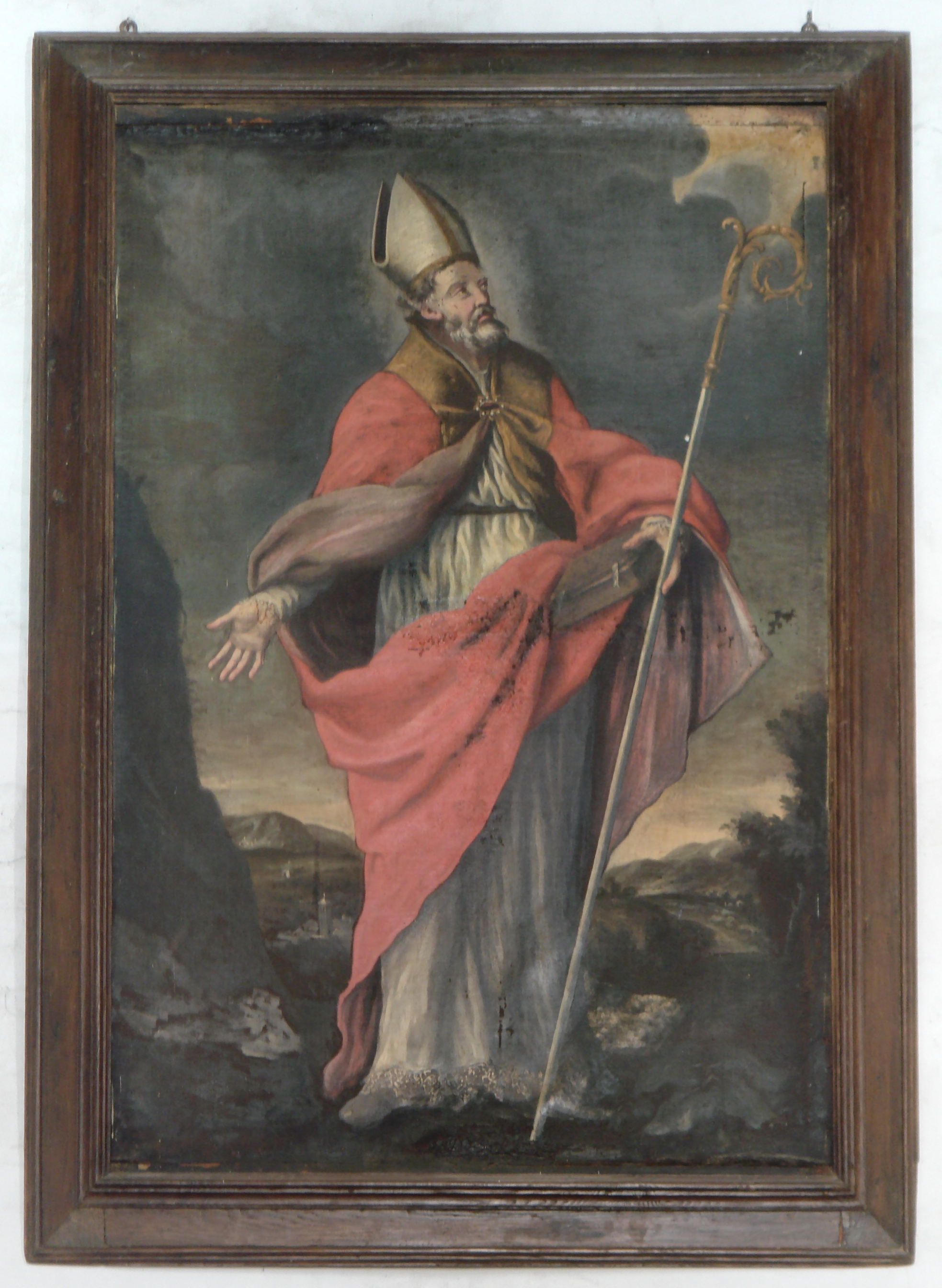 Painting of S. Anselmo in Chiesa di S. Anselmo in Bomarzo, Italy, 2009-04-14 Hugin stitch of 5 long-time exposures with digital still camera.